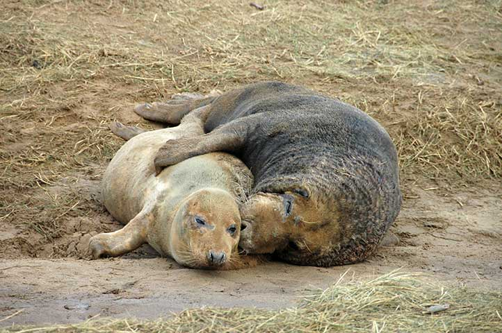 Grey seals mating, Donna Nook, Lincolnshire, UK